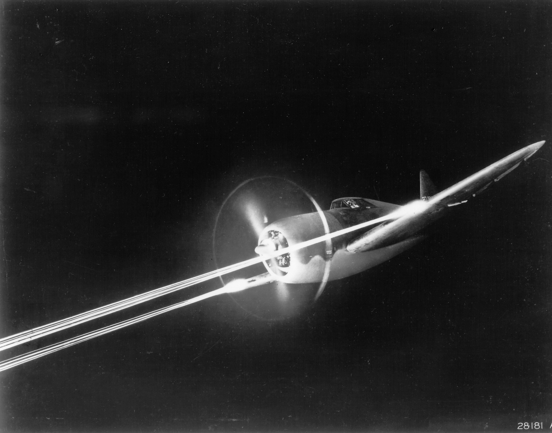 P-47 does night gunnery. USAF Photograph